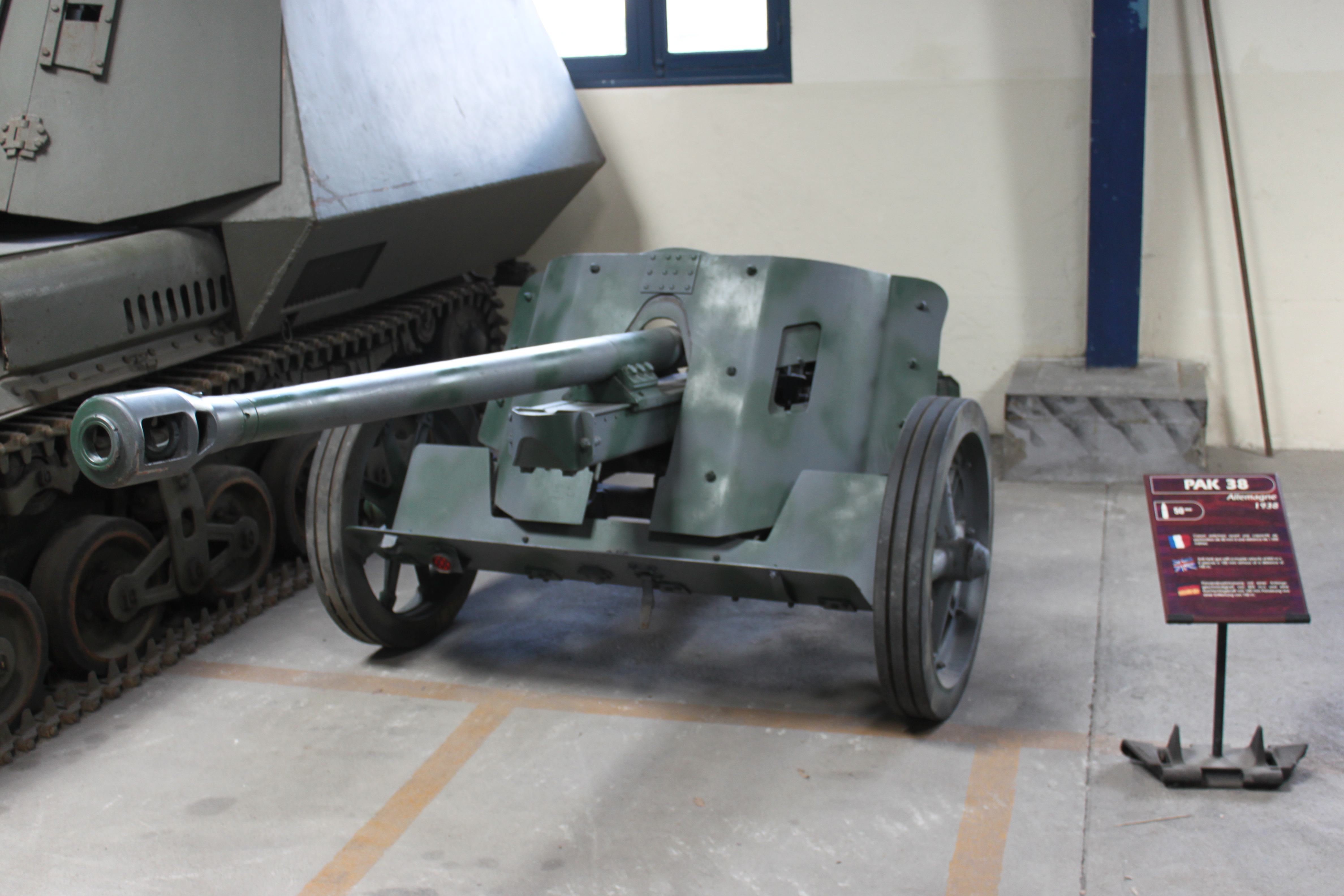 German anti-tank-gun Pak 38(WW II) at the "Musée des Blindés" in Saumur (France)